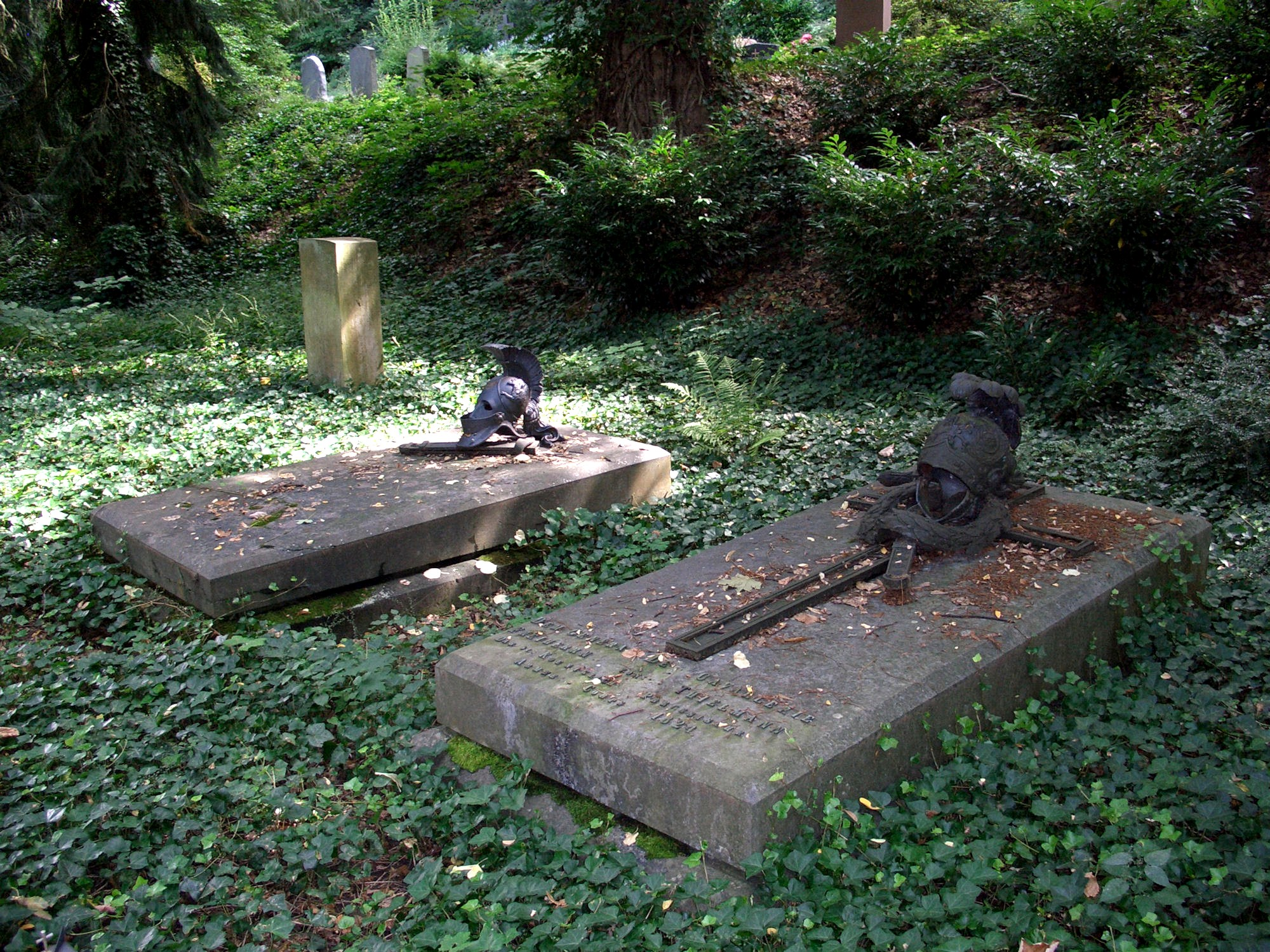 Graves of the prussian generals August Karl von Goeben, Karl Gustav Julius von Griesheim and Johann Adolf von Thielmann at the cemetery of Koblenz